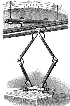 Flat-section pantograph from early Baltimore and Ohio Railroad electric locomotive. The overhead conductor had an inverted "U" cross section, so lateral flexibility was needed on curves.